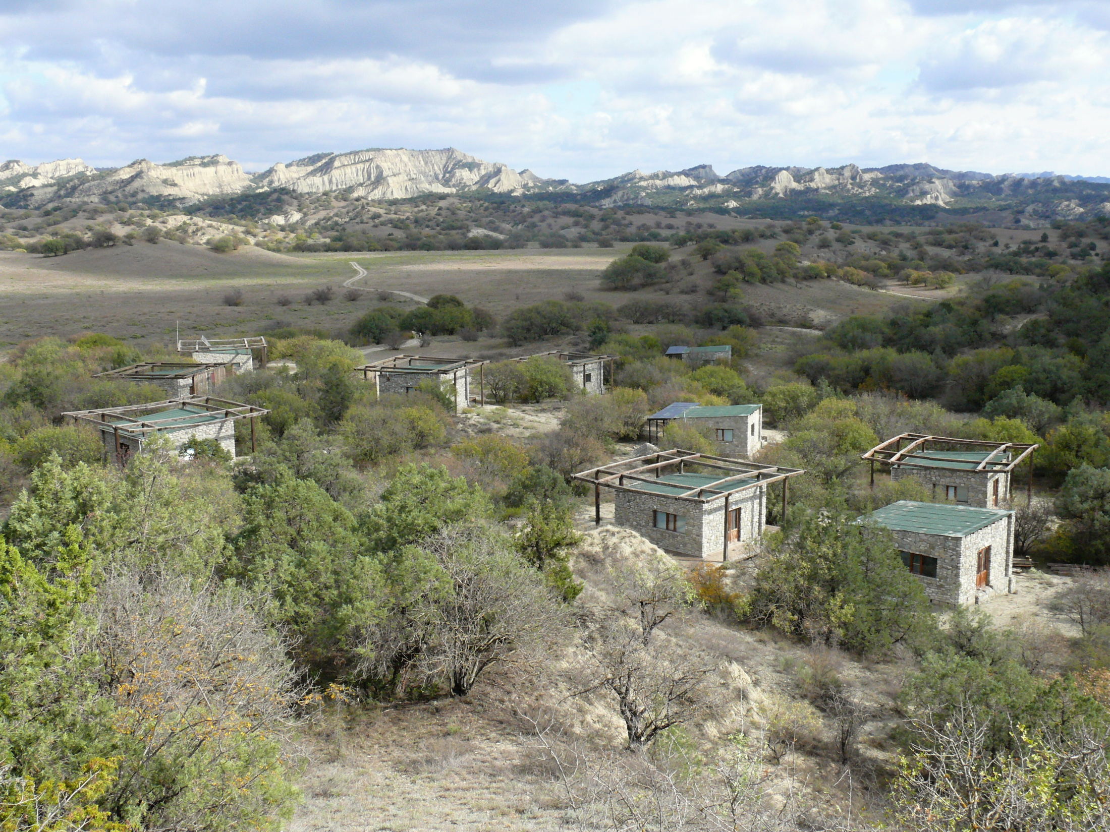 Vashlovani: Main visitor centre.